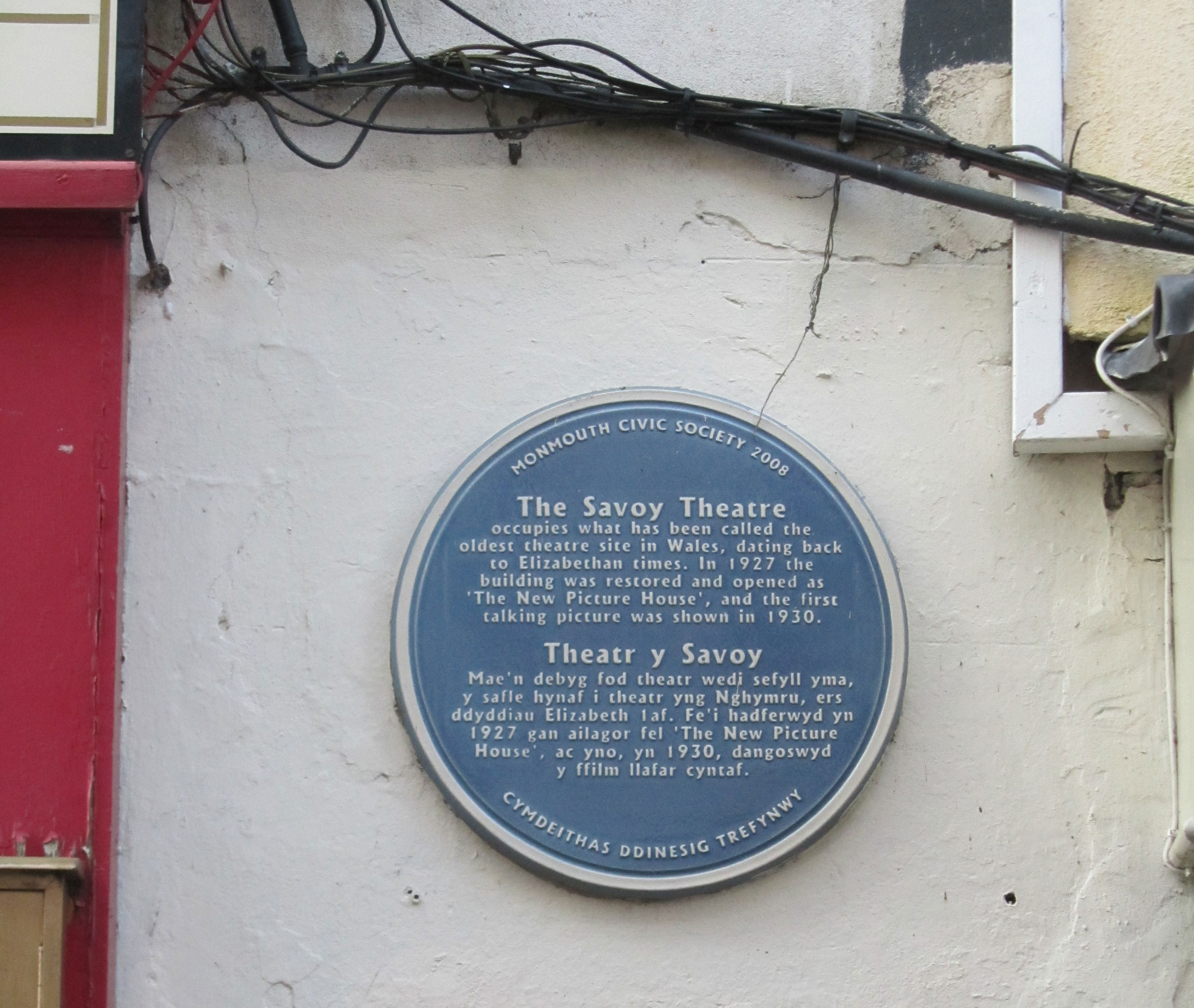 blue plaque for Monmouth heritage trail in English and Welsh